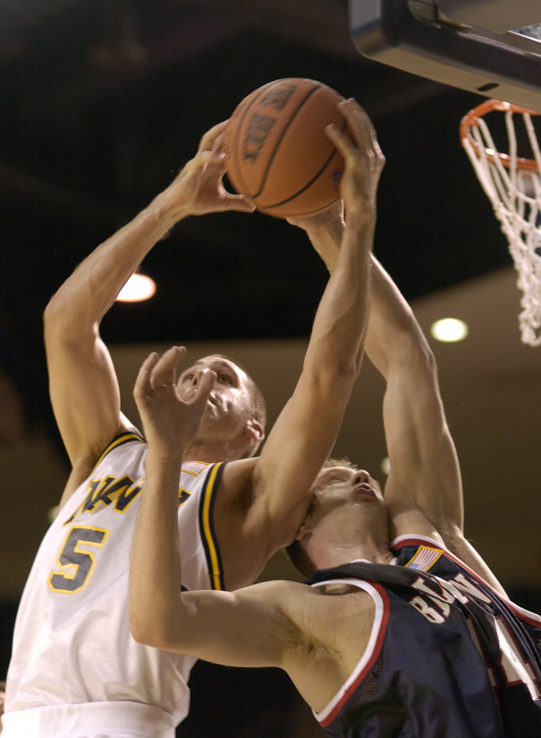 Annapolis, Md. (Nov. 22, 2003) – Navy sophomore guard David Hooper pulls down a rebound over Belmont senior guard Steve Drabyn during the Midshipmen's (0-2) home opener at the U.S. Naval Academy. Navy lost the game to the Bruins 88-71. U.S. Navy photo by Photographer’s Mate 2nd Class Damon J. Moritz. (RELEASED)